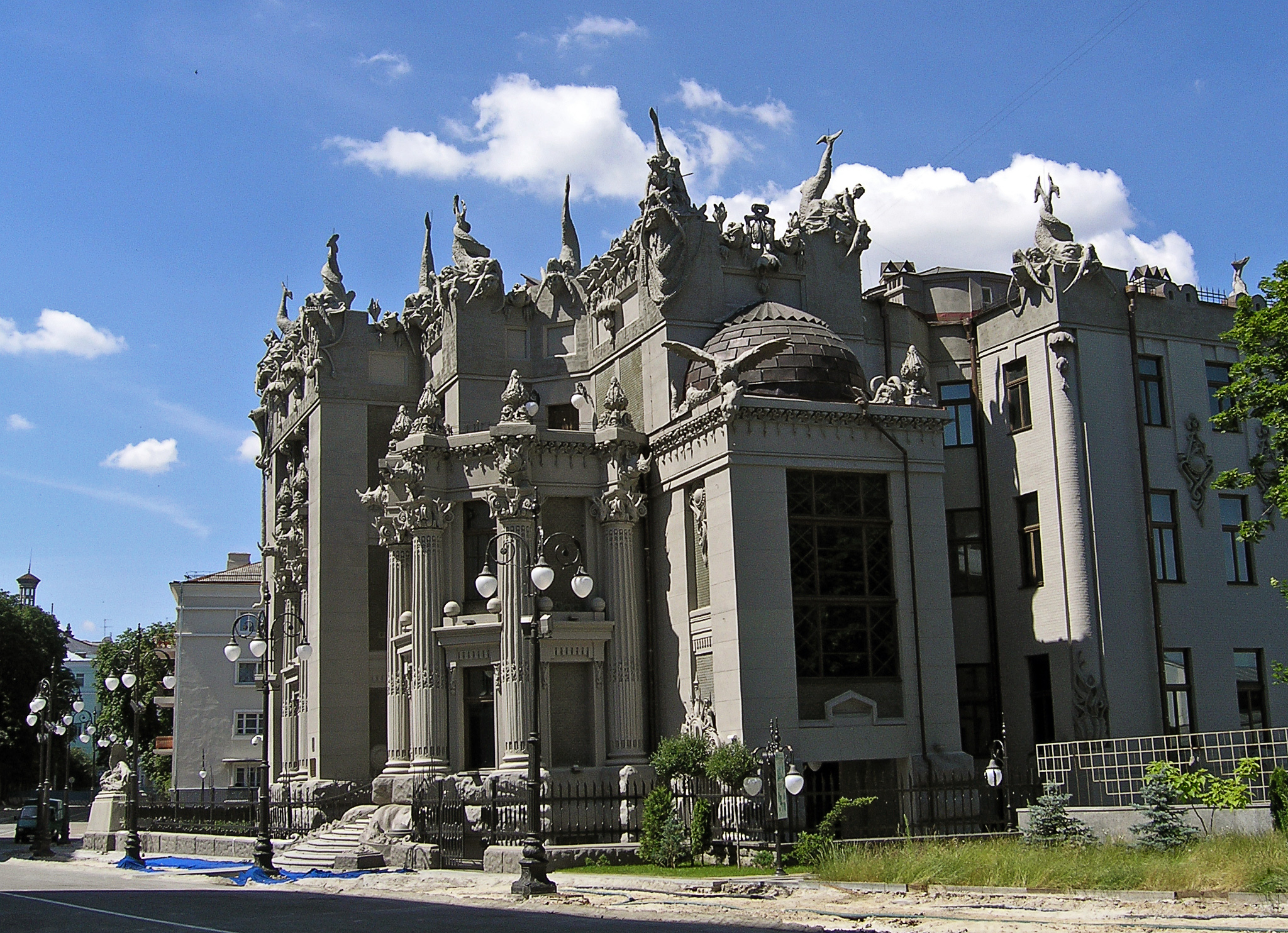 The Art Nouveau House with Chimaeras, designed by Vladislav Gorodetsky, in Kiev, Ukraine.